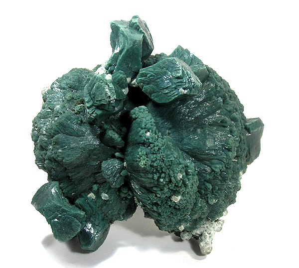 Celadonite, Heulandite-Ca Locality: Jalgaon District, Maharashtra, India (Locality at ) Size: large cabinet, 16 x 14.5 x 7 cm Heulandite included by Celadonite A huge bowtie crystal of heulandite to 15 cm across forms the background for smaller crystals, all of which have been turned a deep green by included celadonite. The smaller crystals display a brighter luster although the big crystal does have matte finish luster. For size but also overall appearance, this is one of the best large examples I have seen of these are and now-classic stilbites.